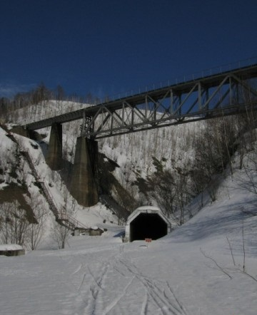 Мост 74 км (Холмск, зима)